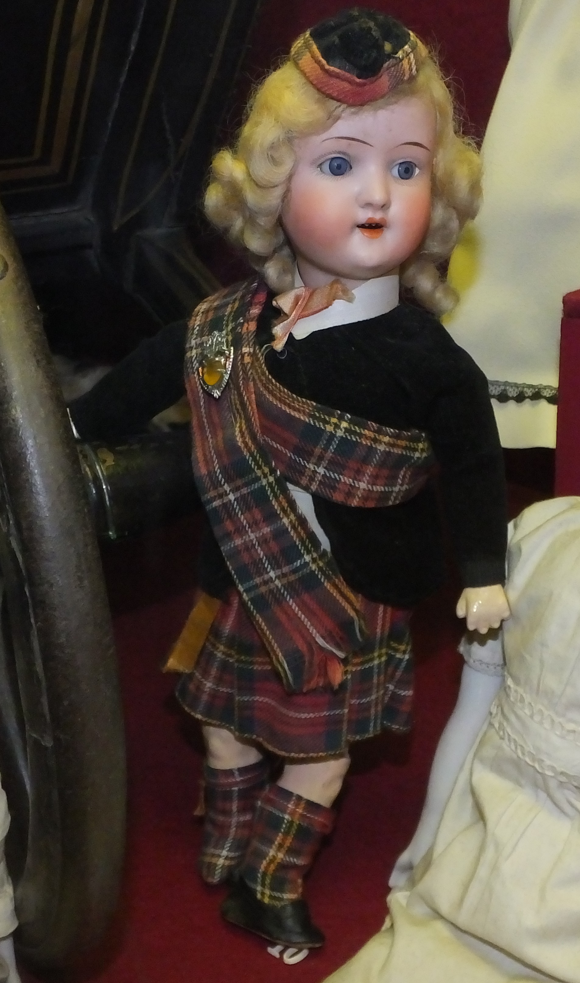 Doll from the collection of the Guildhall Museum in Rochester, Kent. Scottish bisque doll c1910 Schoenau & Hoffmeister